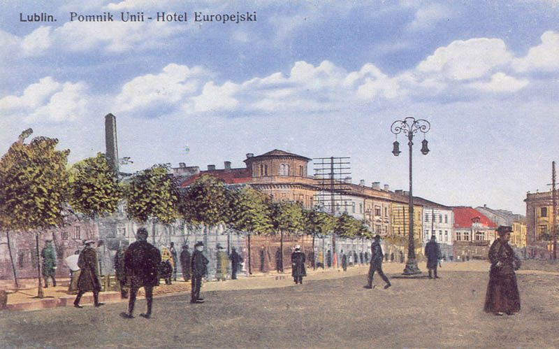 Lithuanian Square in Lublin.